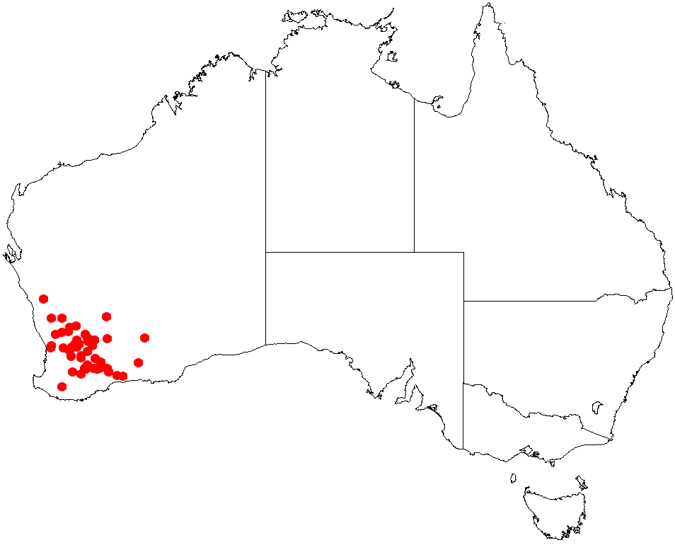 Actinotus superbus occurrence data downloaded from Australasian Virtual Herbarium on 8 January 2020 using